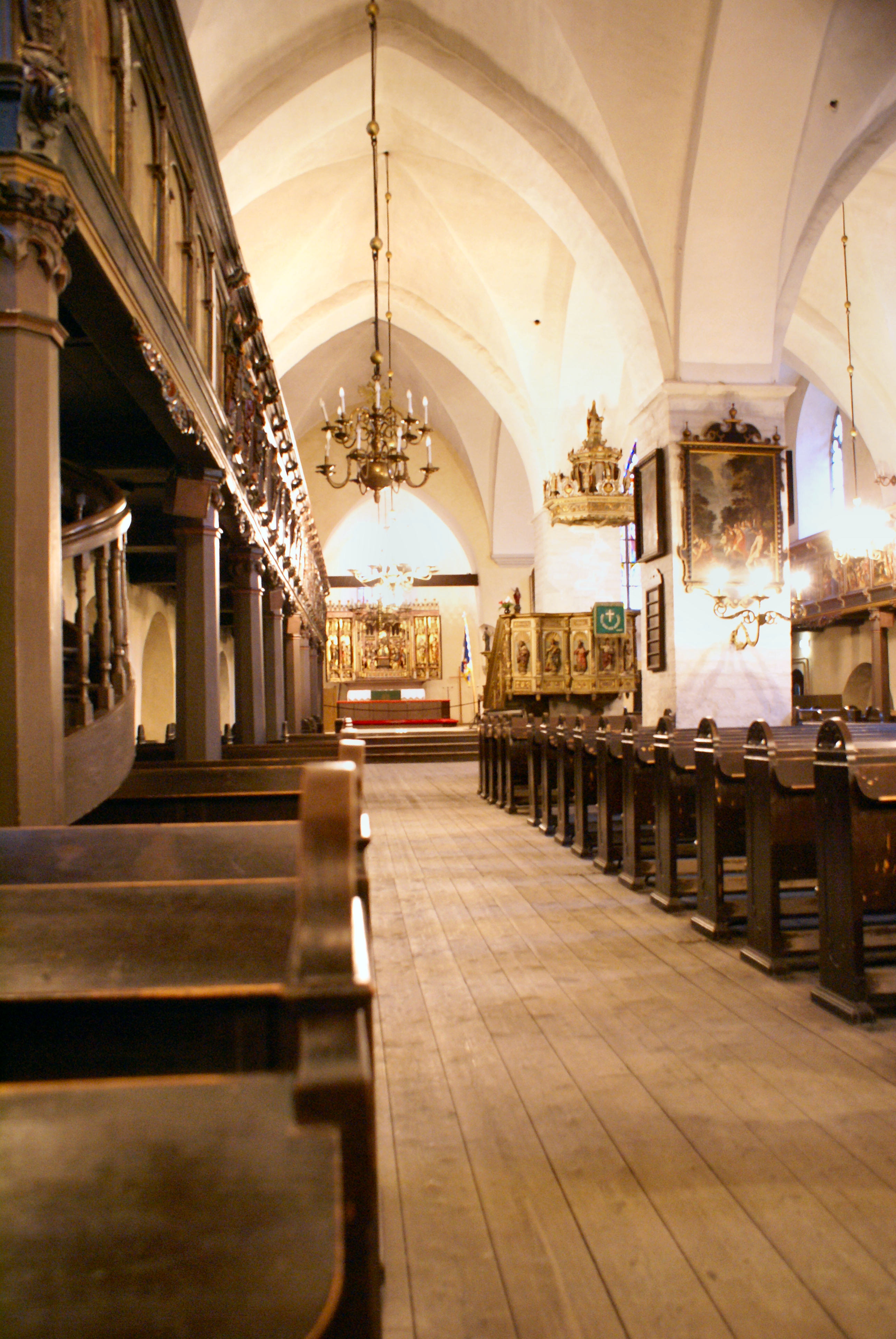 Church of Holy Spirit in Tallinn